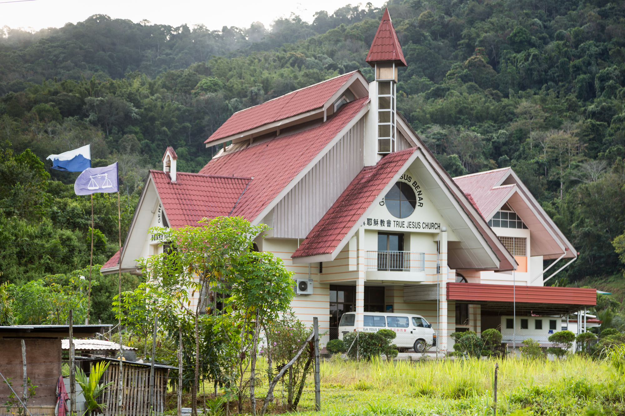 Tamparuli, Malaysia: True Jesus Church (Gereja Yesus Benar)